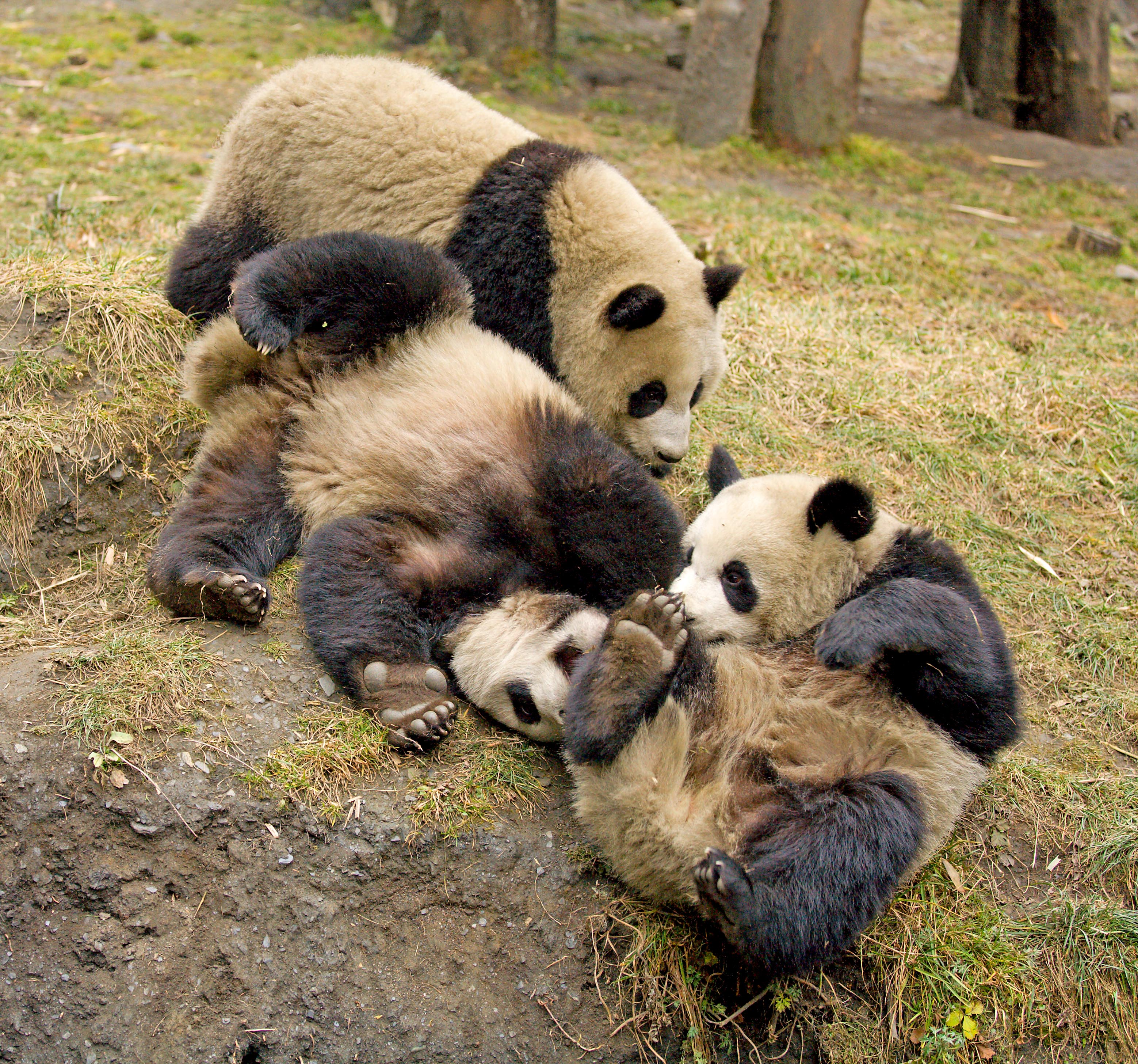 About 2 seconds after this picture was taken, the cub at the bottom right corner of the picture was kicked down the slope...